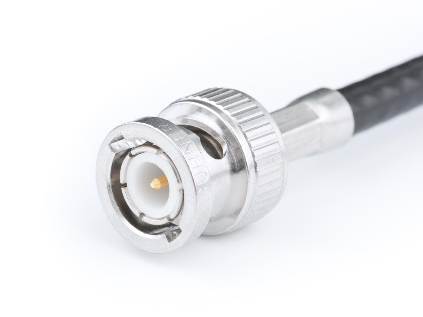 50 ohm male BNC connector, on G 03232 D-01 cable, manufactured by Huber+Suhner